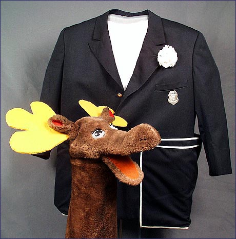 Source: Smithsonian Institution original of picture